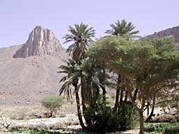 An oasis in Algeria